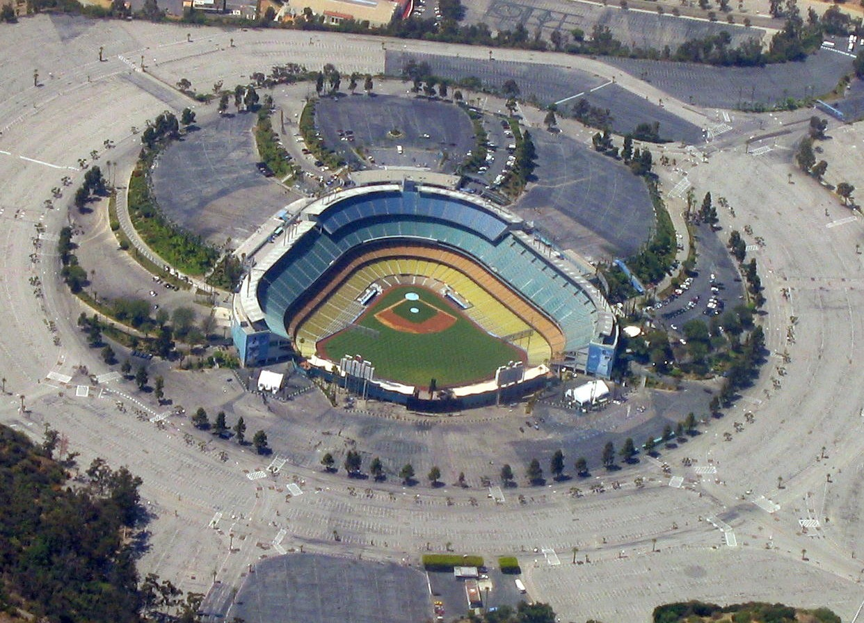 Dodger Stadium, home of the Los Angeles Dodgers.